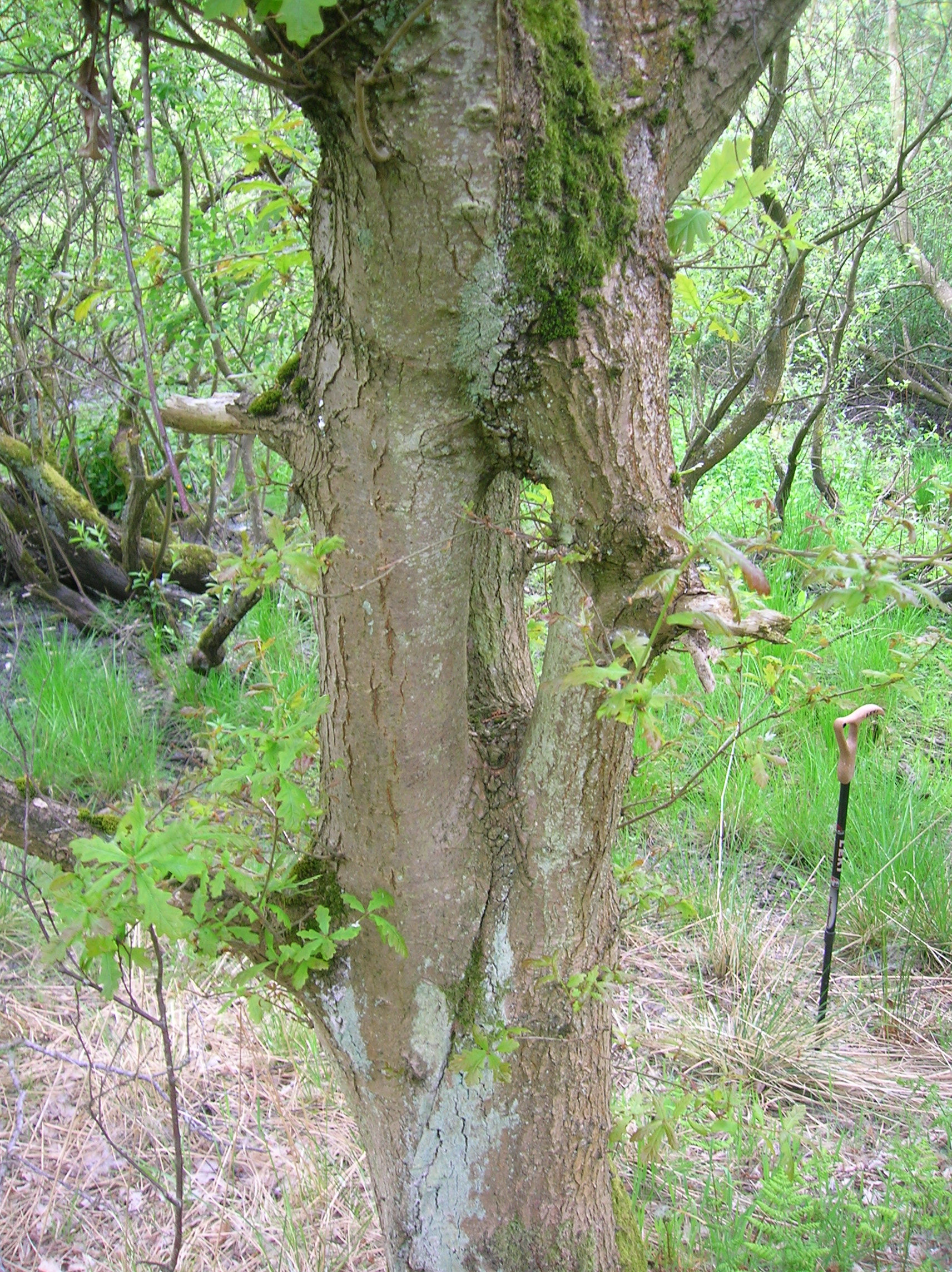 Eglinton fish pond island with an inosculated sessile oak, Ayrshire, Scotland